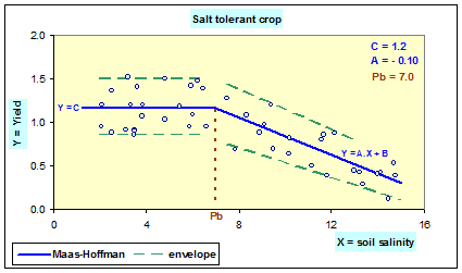 Maas-Hoffman model for crop yield and soil salinity relations to find salt tolerance of crops